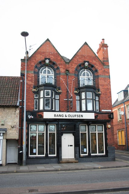 Bang & Olufsen shop On lower High Street, Lincoln